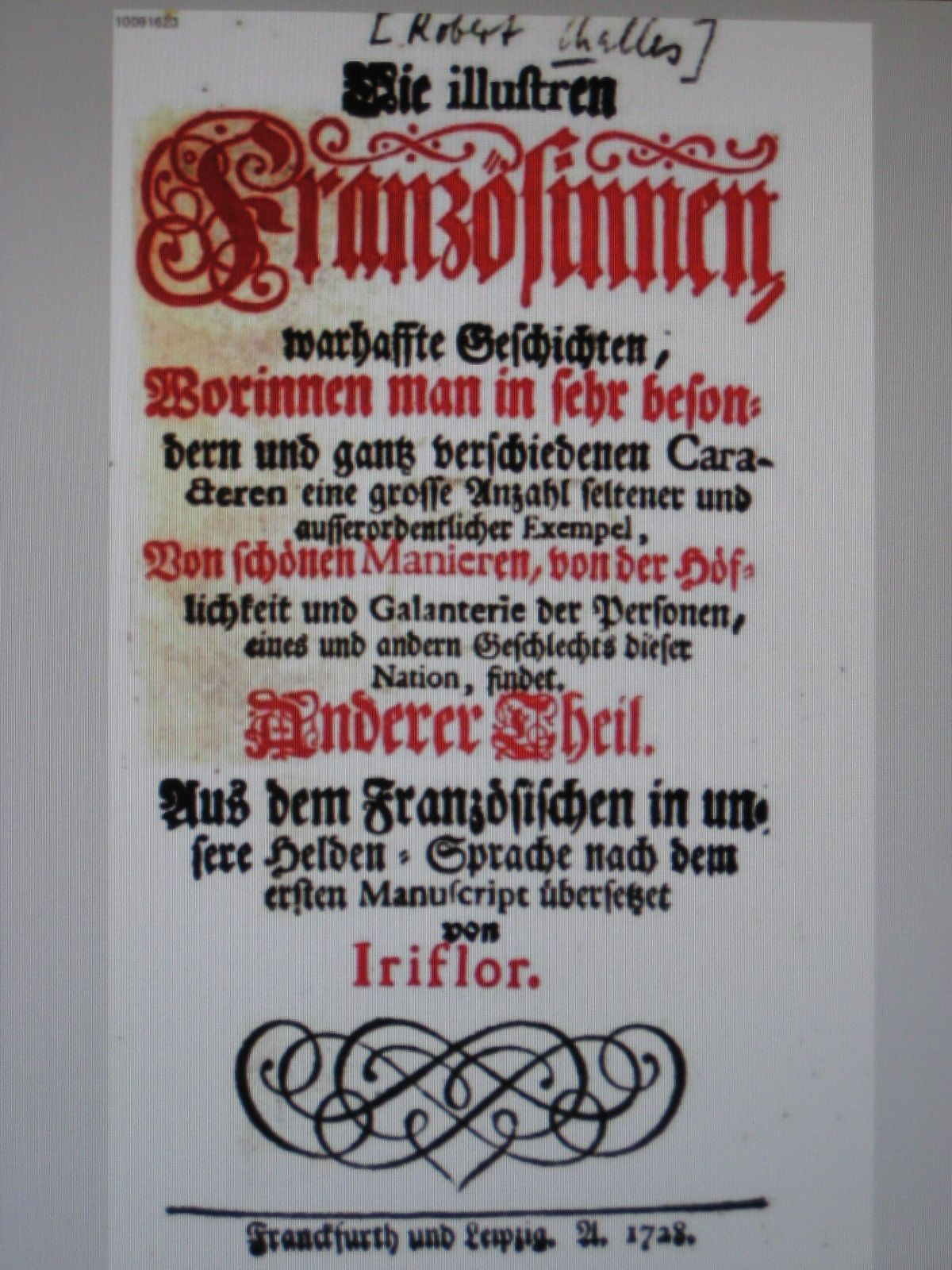 Robert Challe, Front page of Die illustren Französinnen